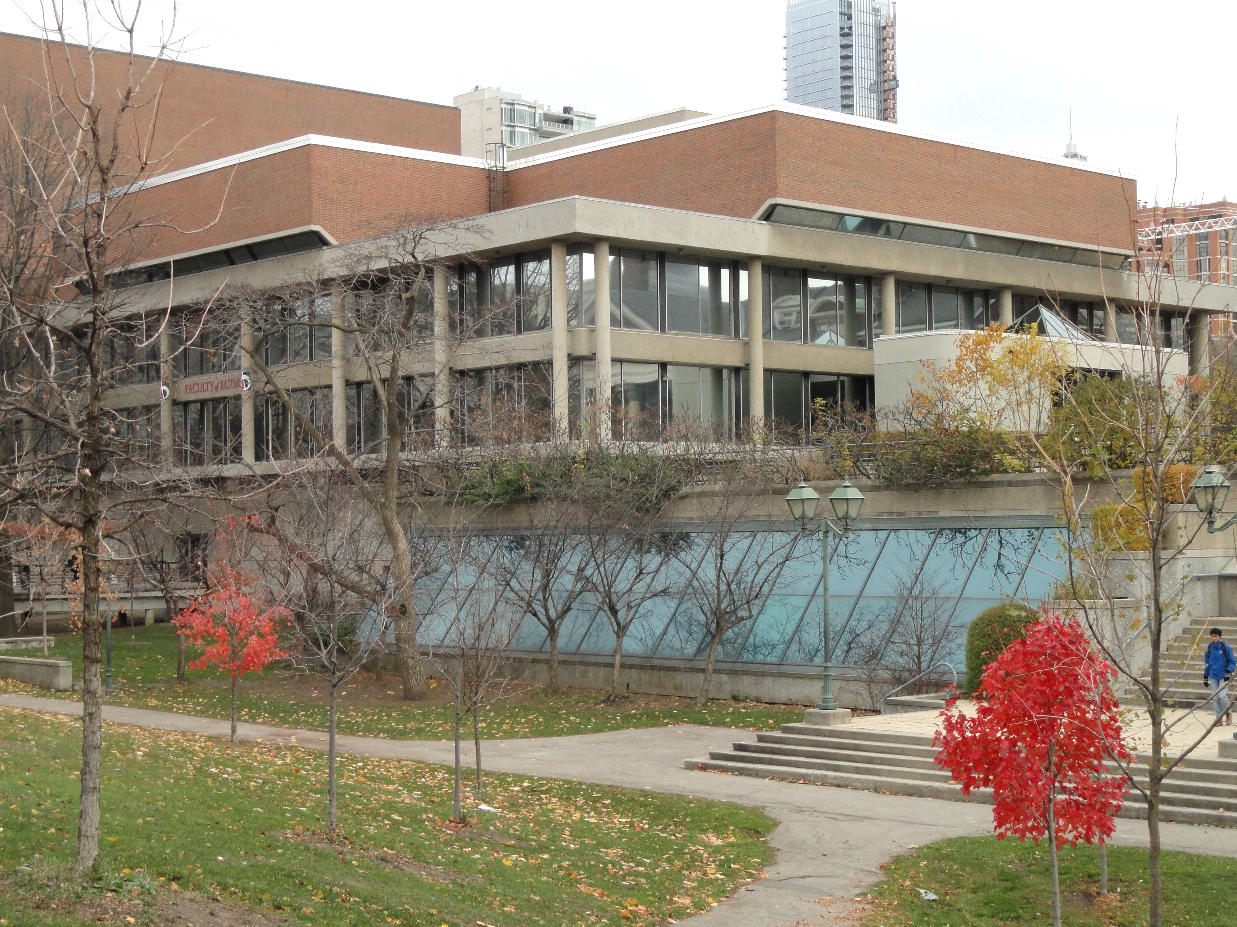 University of Toronto, Toronto, Ontario, Canada.